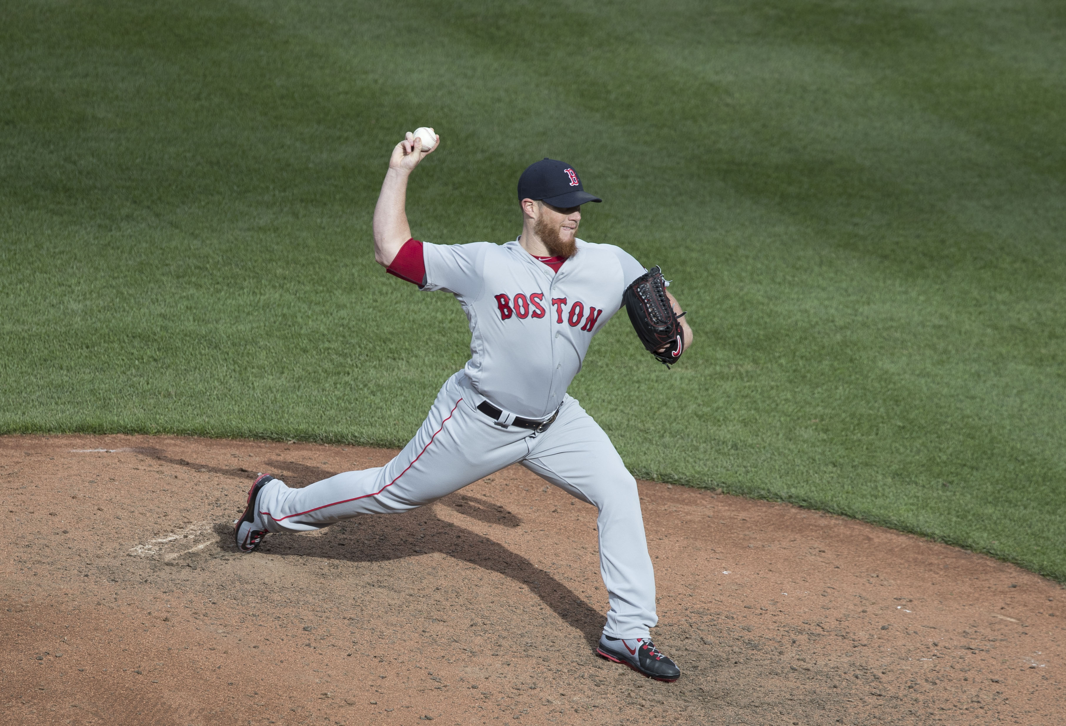 Craig Kimbrel of the Boston Red Sox pitches against the Baltimore Orioles in the ninth inning at Oriole Park at Camden Yards on April 23, 2017 in Baltimore, Maryland.